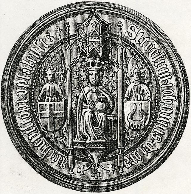 Great seal of Swedish regent Archbishop Jöns Bengsston Oxenstierna (died 1467), as released by image scanner Ristesson